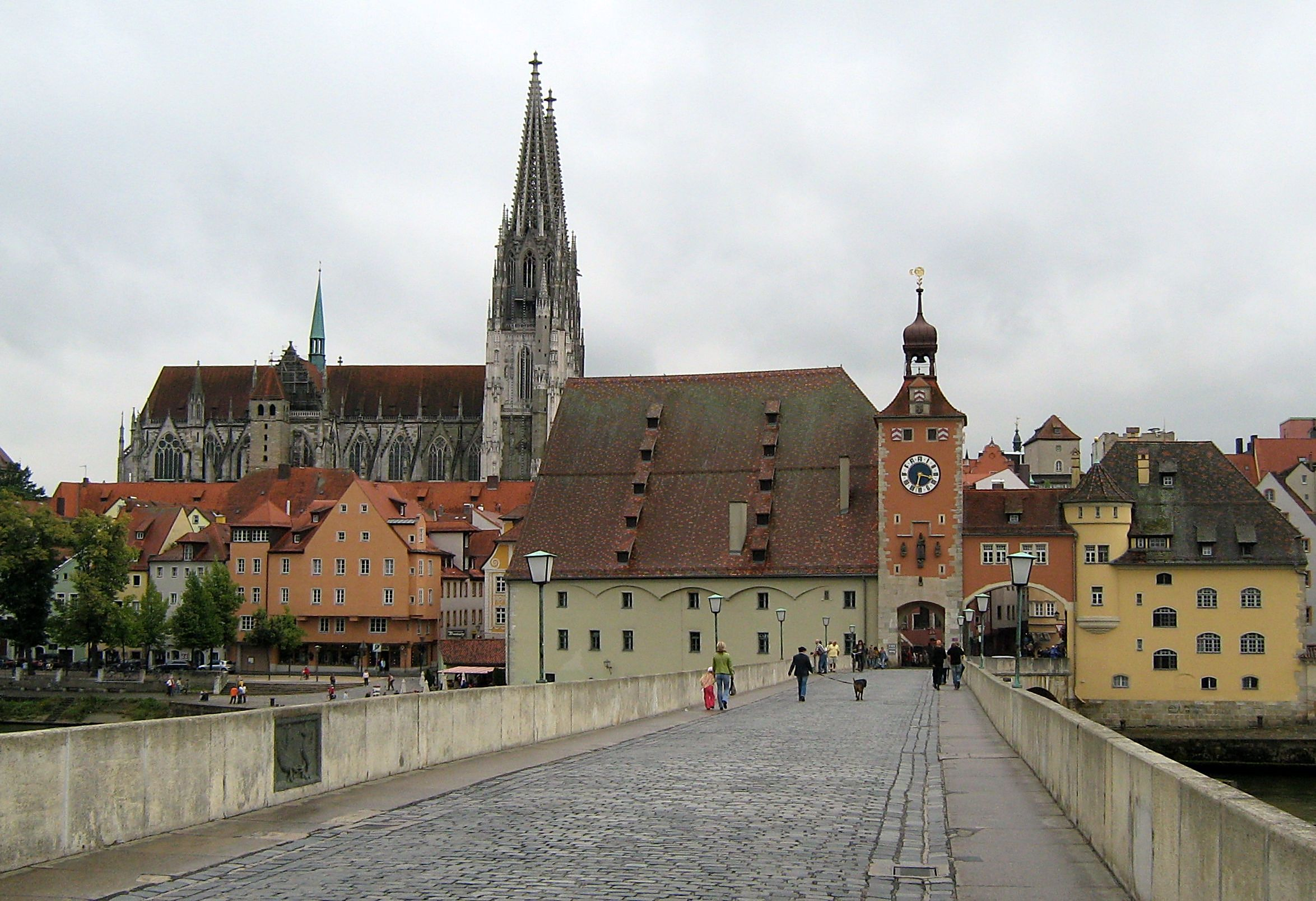 The old stonebridge, Steinerne Brücke, in Regensburg, Bavaria. August 8, 2007.